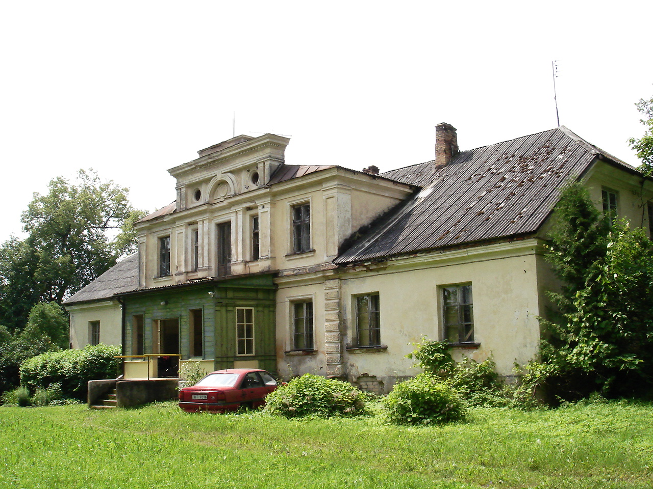 manor